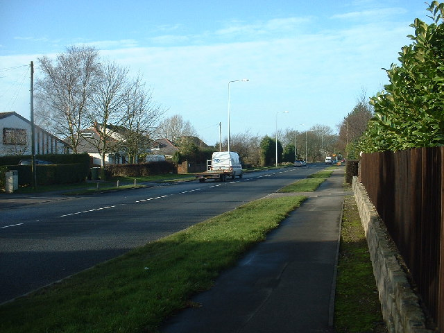 The A585 at Little Singleton. When I worked in the area some years ago, this road was known as "Millionaire's Row" - it was a preferred residential area for Blackpool businessmen. It still has a lot of splendid, and well protected, large houses.